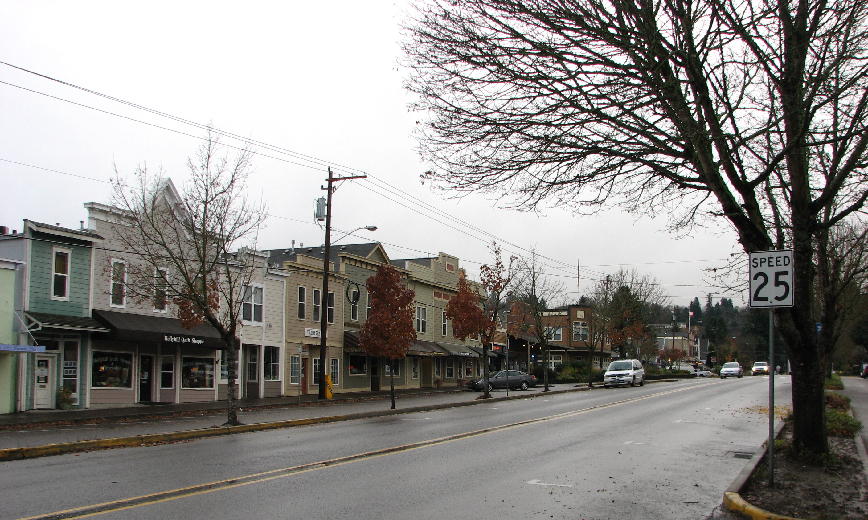 The Historic Willamette Area of West Linn, OR. Taken by Ulmanor with a Canon PowerShot S3 IS on November 19, 2007.